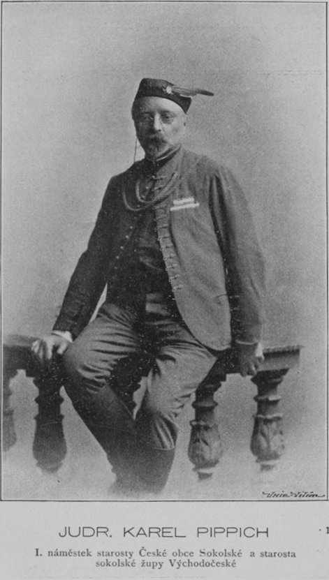 Portrait of Karel Pippich (1849-1921), a Czech lawyer, chairman of Sokol movement in Eastern Bohemia, playwright and organizer of amateur theater in Chrudim.